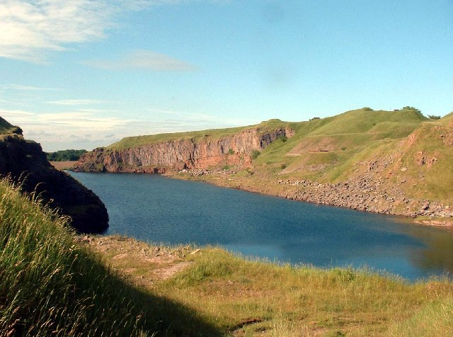 Salterhall Quarry, part of Rowrah Quarry. This limestone quarry has become water-filled since it was abandoned. Its western cliffs now provide a home for birds and its waters a final resting place for burnt-out cars.